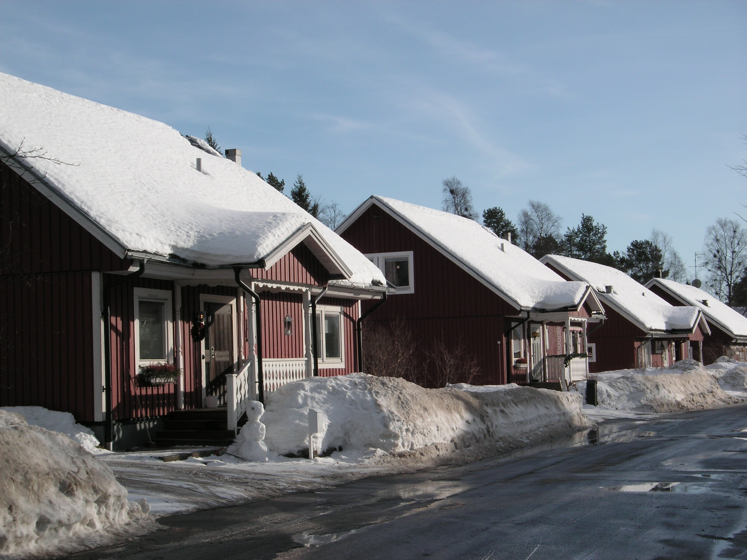 Houses on Carlslid, Umeå, Sweden.